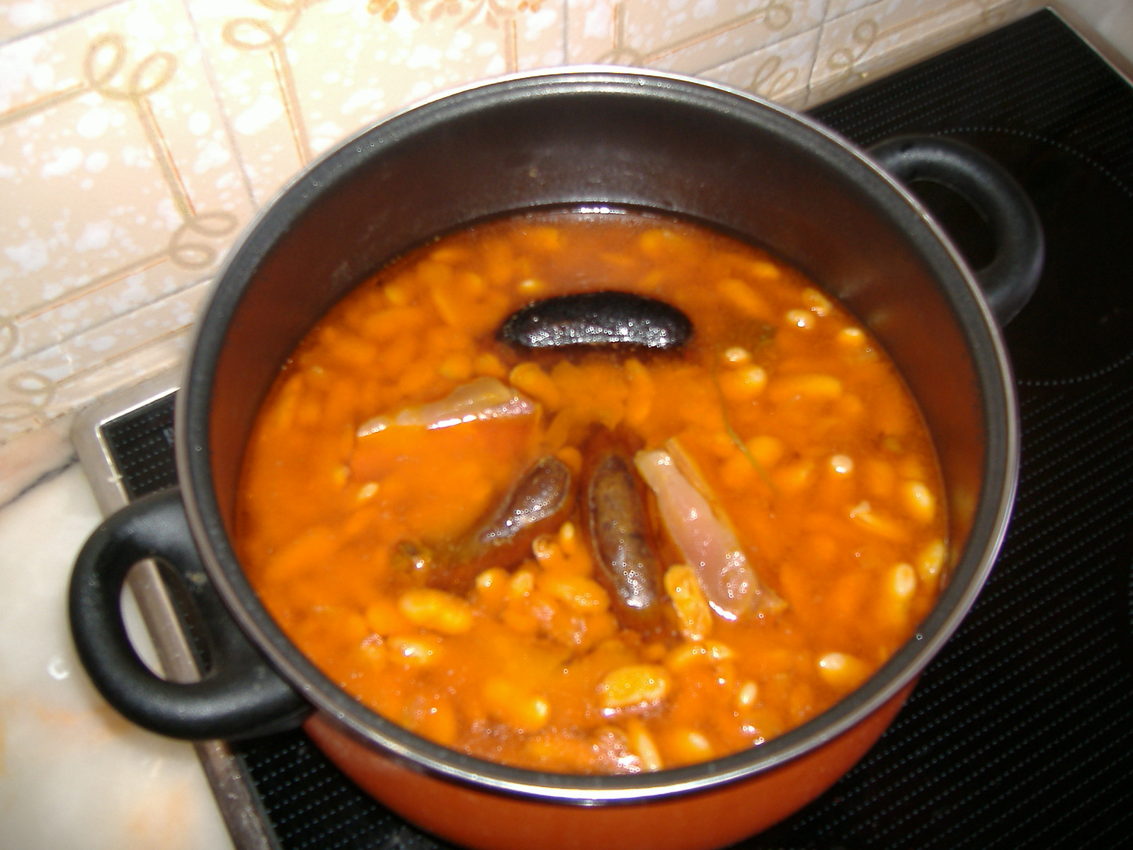 Asturian fabada, a typical dish from Asturias, Spain